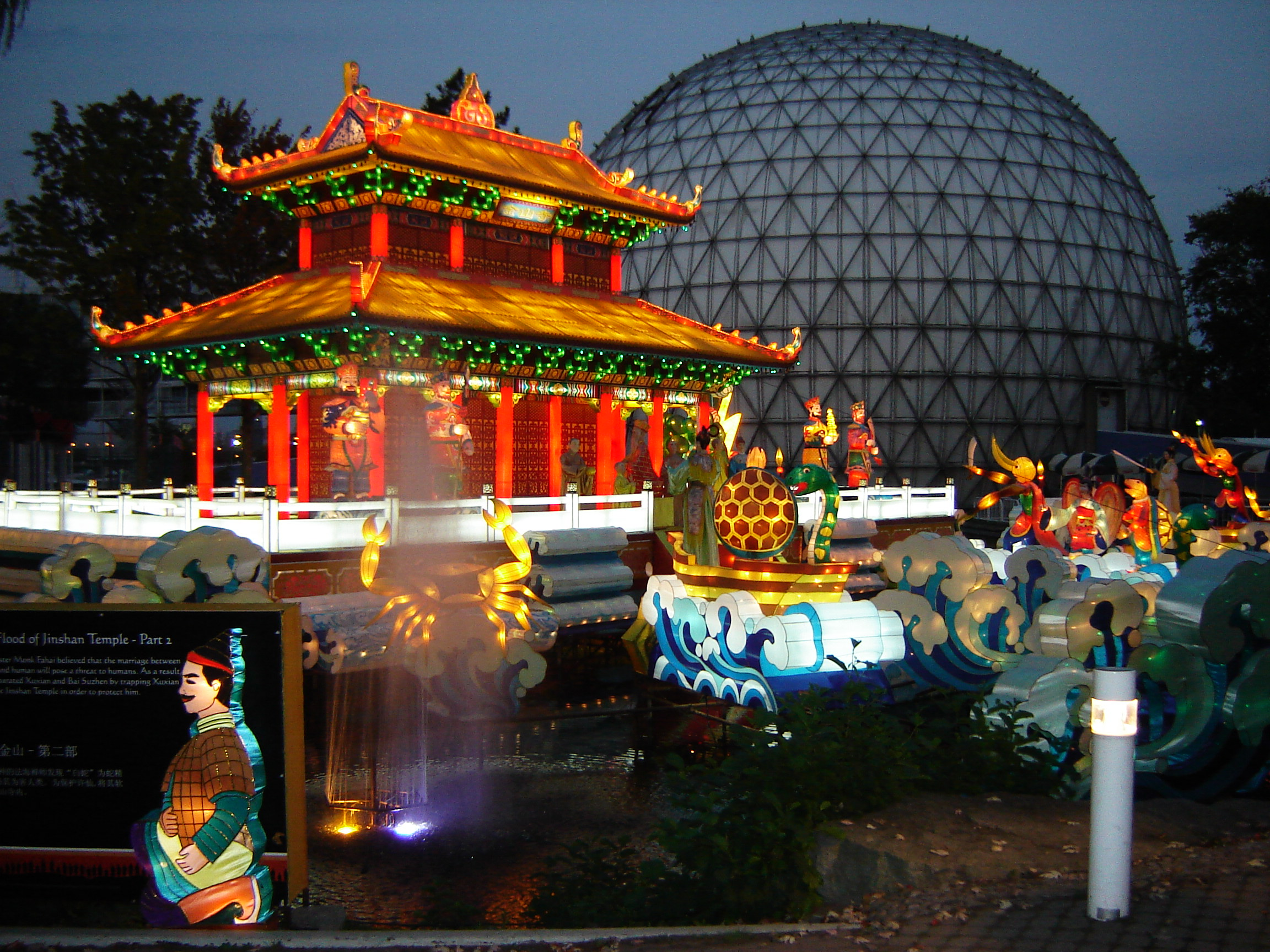 One of the Lanterns from the 2007 Toronto Chinese Lantern Festival, denoting a scene from Chinese folklore - "The Fable of the White Serpent".